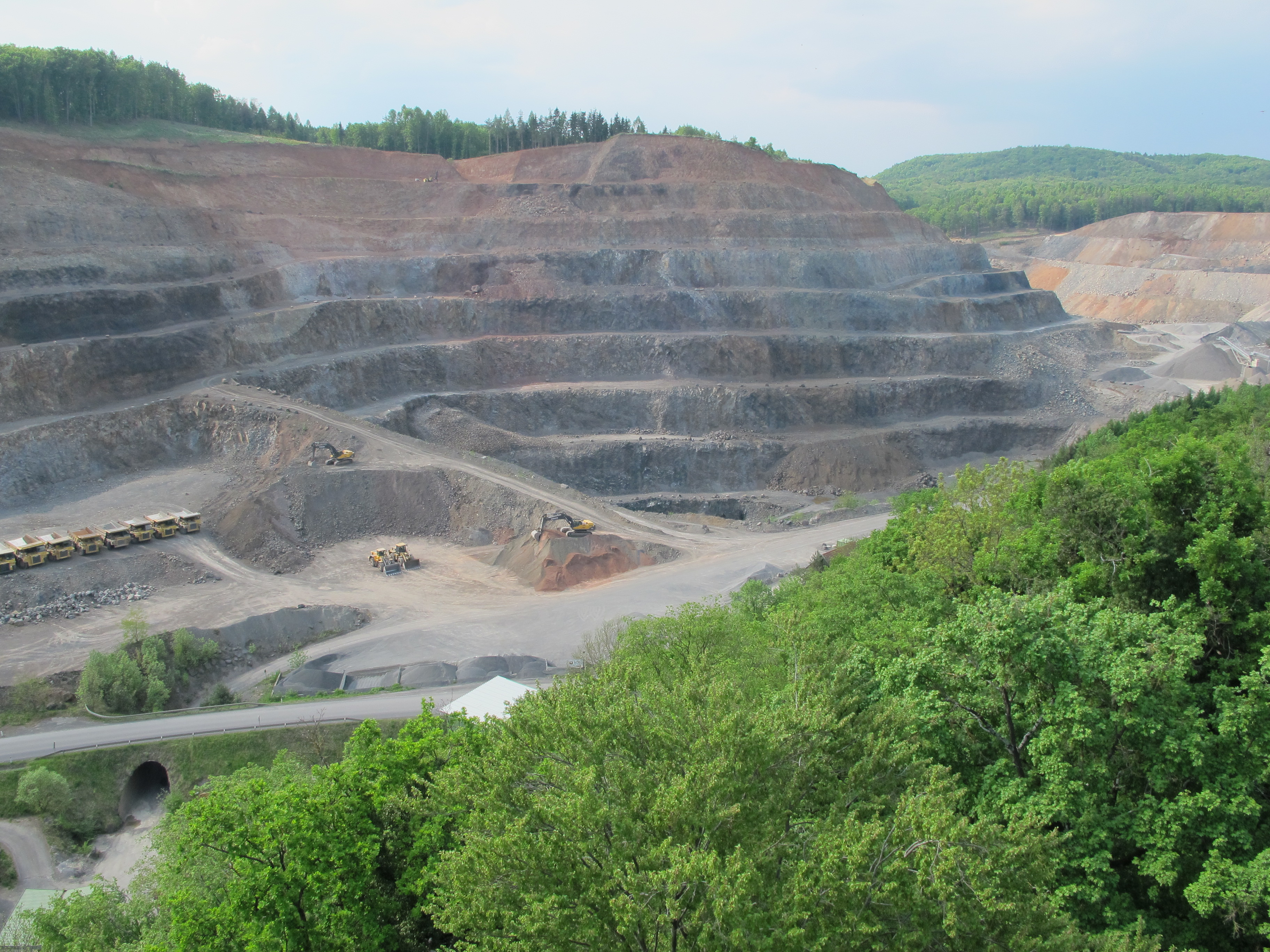 Basalt Abbau Klöch